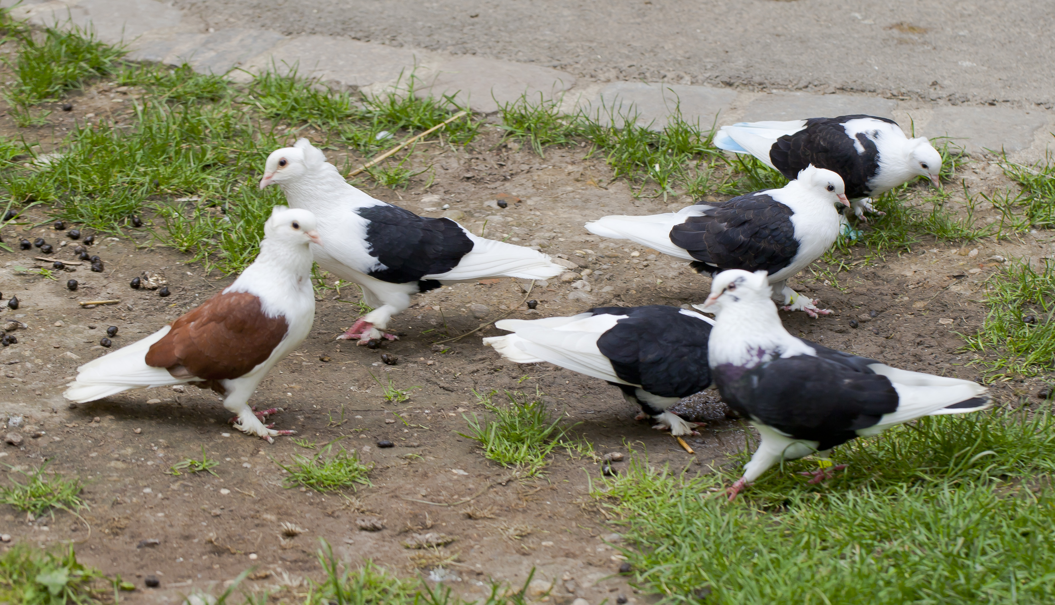 Saxon Shield, Tierpark Hellabrunn, Munich, Germany